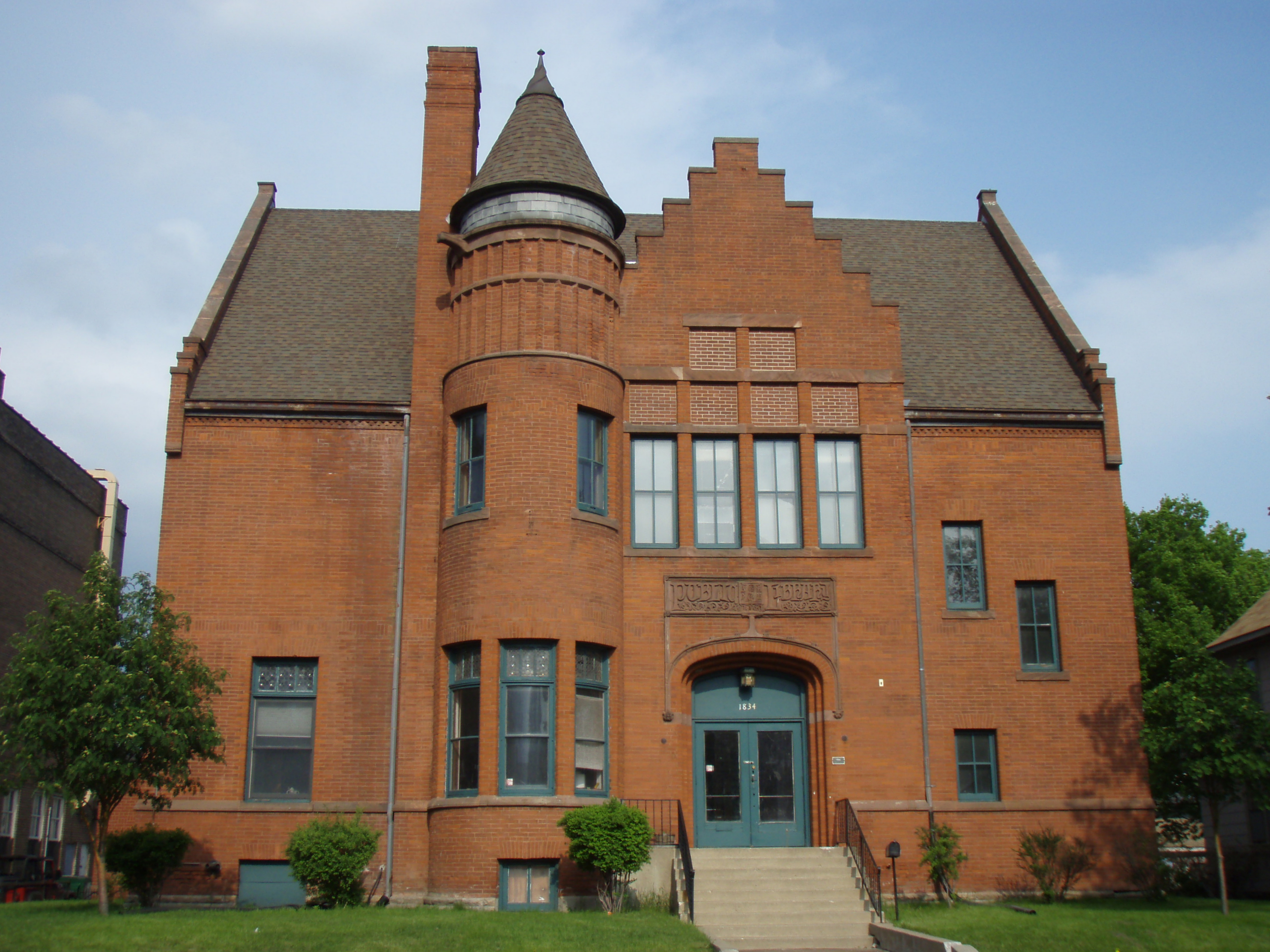 Minneapolis Public Library, North Branch in Minneapolis, Minnesota.